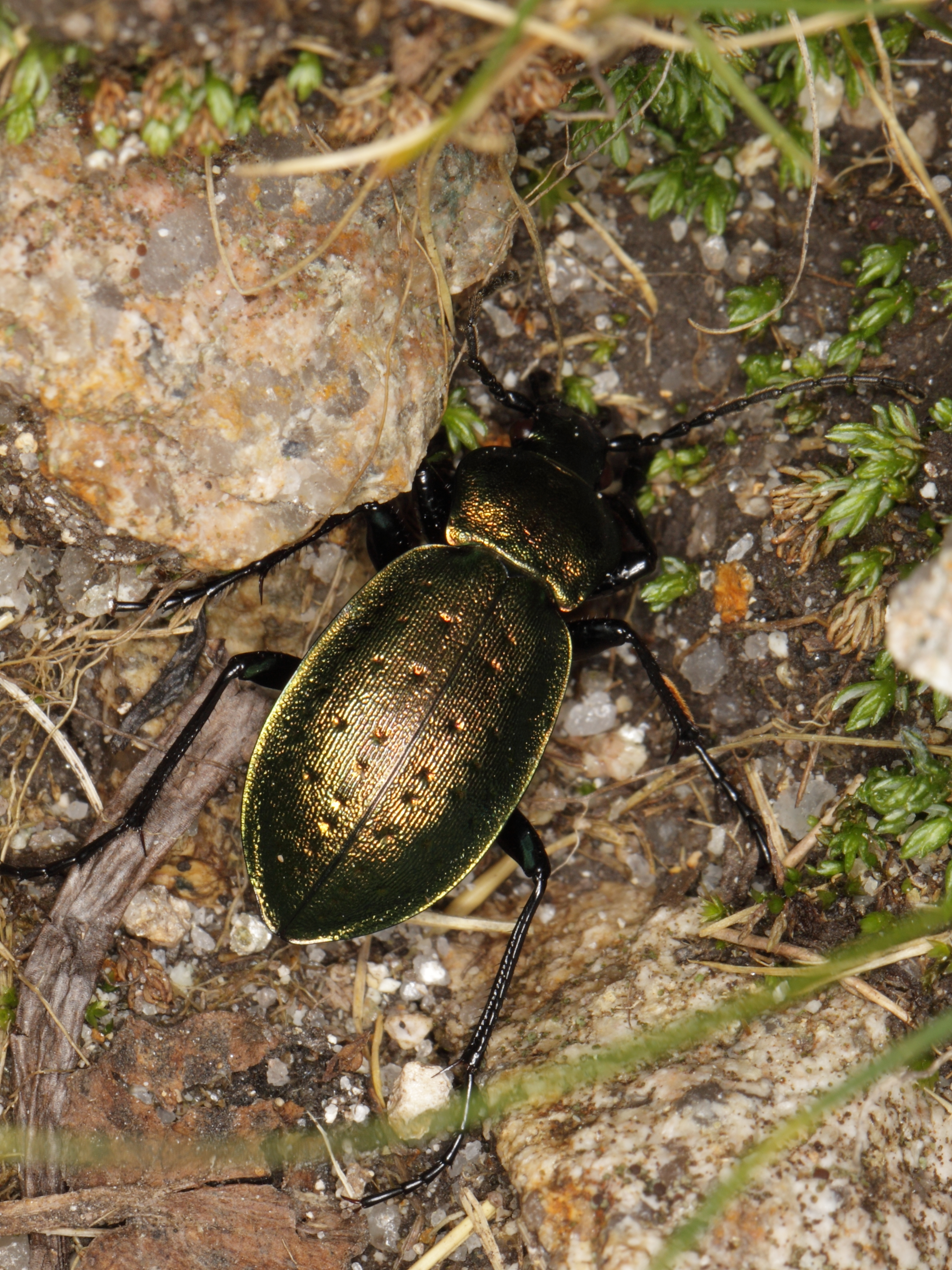 This agile hunter was seen hunting at midday L: 17-25mm, male Subspecies: transsylvanicus DEJEAN, 1826 Carabus (Orinocarabus) sylvestris PANZER, 1793 (Robuster Bergwaldlaufkäfer) [det. G Bohne, 2012, based on photos] Subgenus: Orinocarabus Genus: Carabus (Großlaufkäfer) Family: Carabidae (ground beetles, Laufkäfer) Suborder: Adephaga Order: Coleoptera NE-Slovakia, High Tatras: vic. Starý Smokovec, 1800-1900m asl. (on high pastures with patches of shrubs Pinus), 30.06.2012 IMG_1787